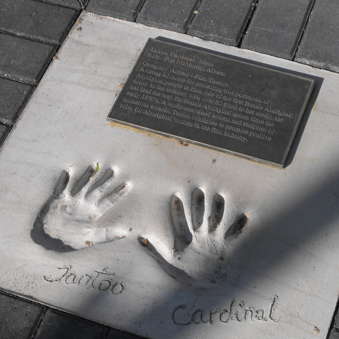 Hand Prints of Tantoo Cardinal, Aboriginal Walk of Honour, Edmonton AB